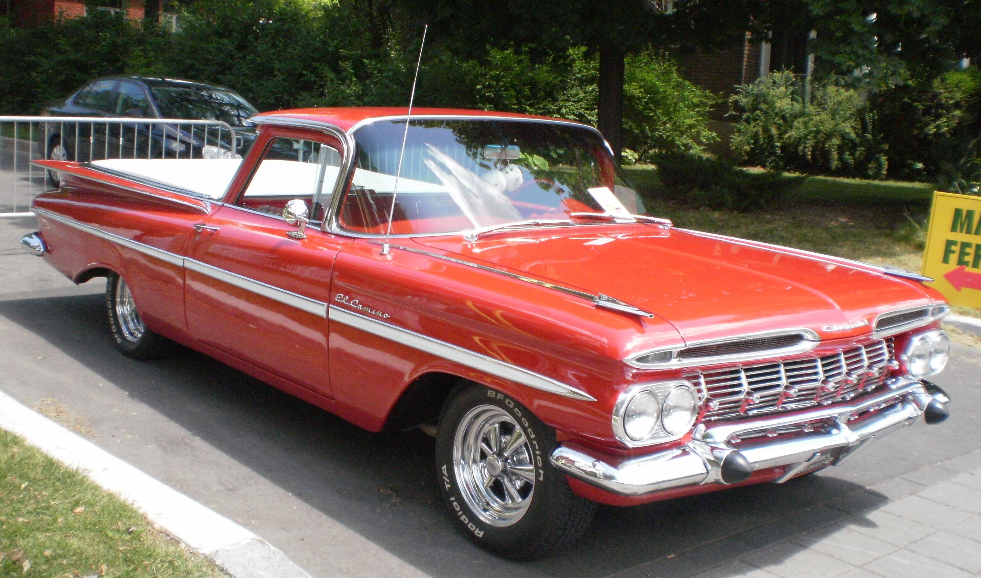 1959 Chevrolet El Camino photographed in Ste. Anne De Bellevue, Quebec, Canada at Crusin' At The Boardwalk 2011.